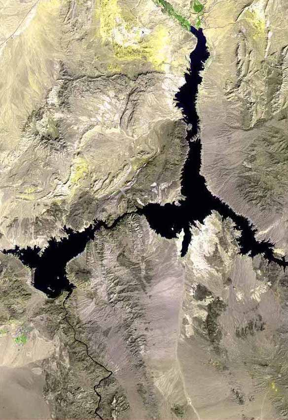 Lake Mead, National Recreation Area, from Space. The raw satellite imagery shown in these images was obtained from NASA and/or the US Geological Survey. Post-processing and production by